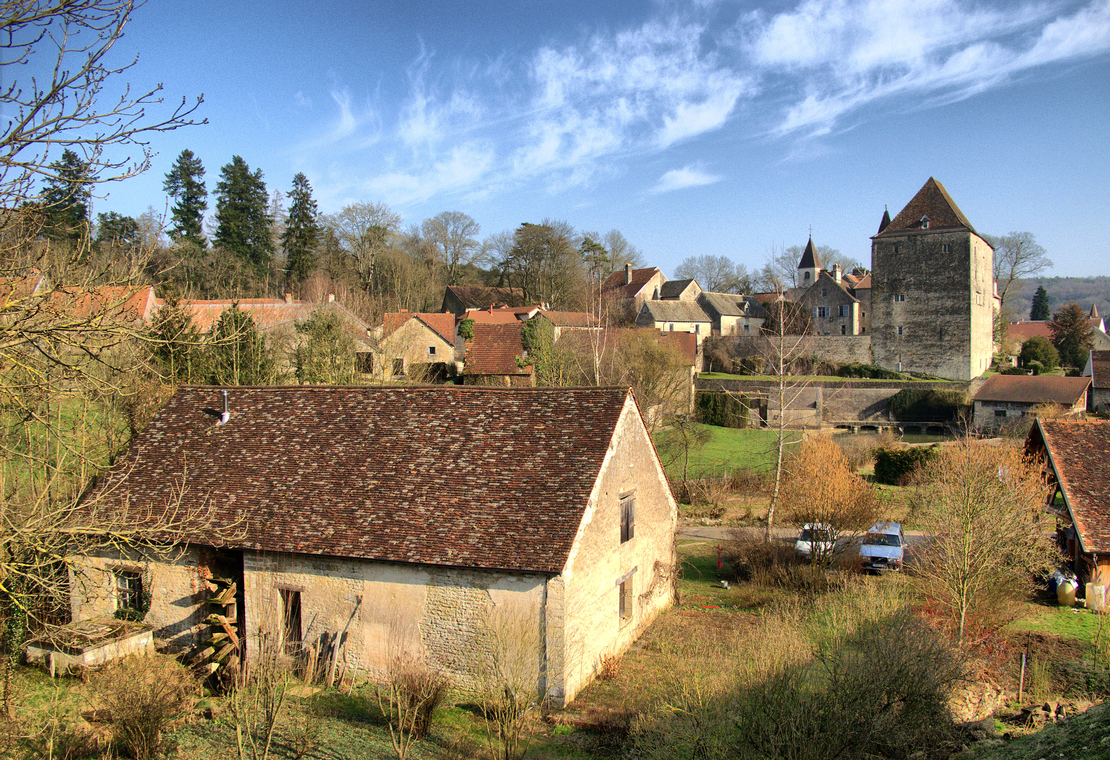 Oil watermill in Fondremand (Haute-Saône, France) .